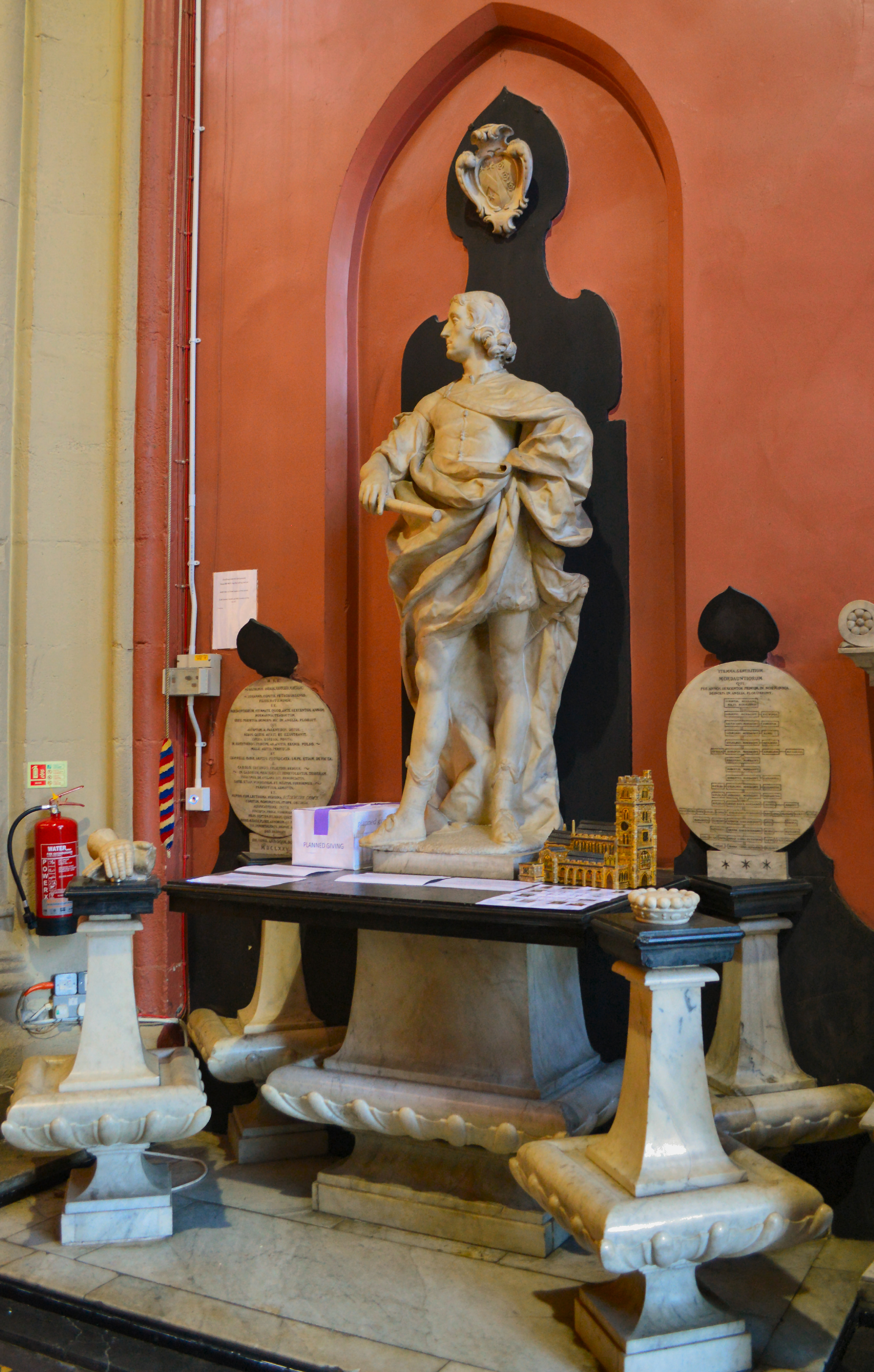 Fulham, All Saints Church, monument to Johannes Mordaunt (Lord Mordaunt D1675)